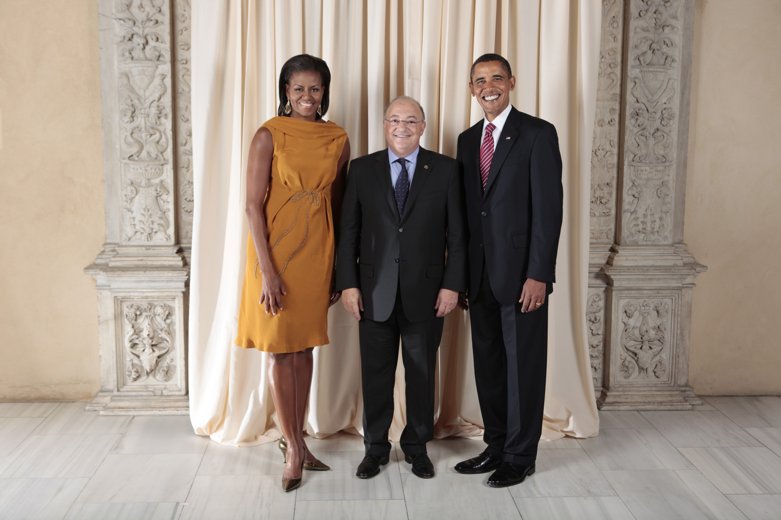 President Barack Obama and First Lady Michelle Obama pose for a photo during a reception at the Metropolitan Museum in New York with Xavier Espot Miro, Minister of Foreign Affairs and Institutional Relations of Andorra.